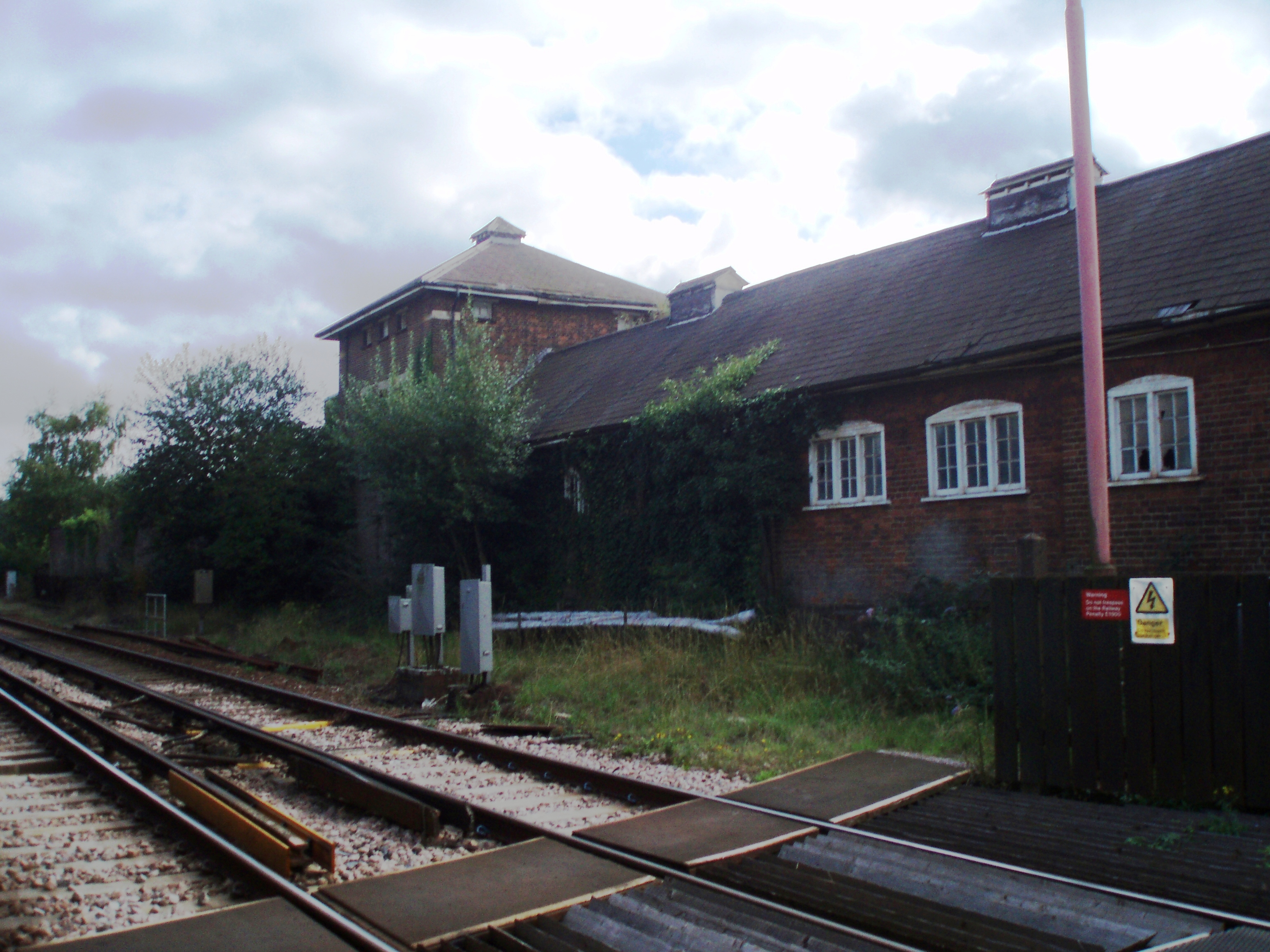 Looking north, The platform to Midhurst was to the north of the gates at Petersfield railway station. Photo taken by M.Eyre 26th August 2007